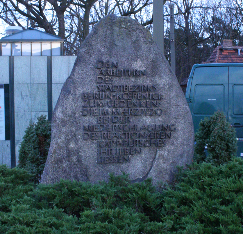 Memorial for Köpenick's victims of the Kapp Putsch on the market place of Grünau, Treptow-Köpenick, Berlin.